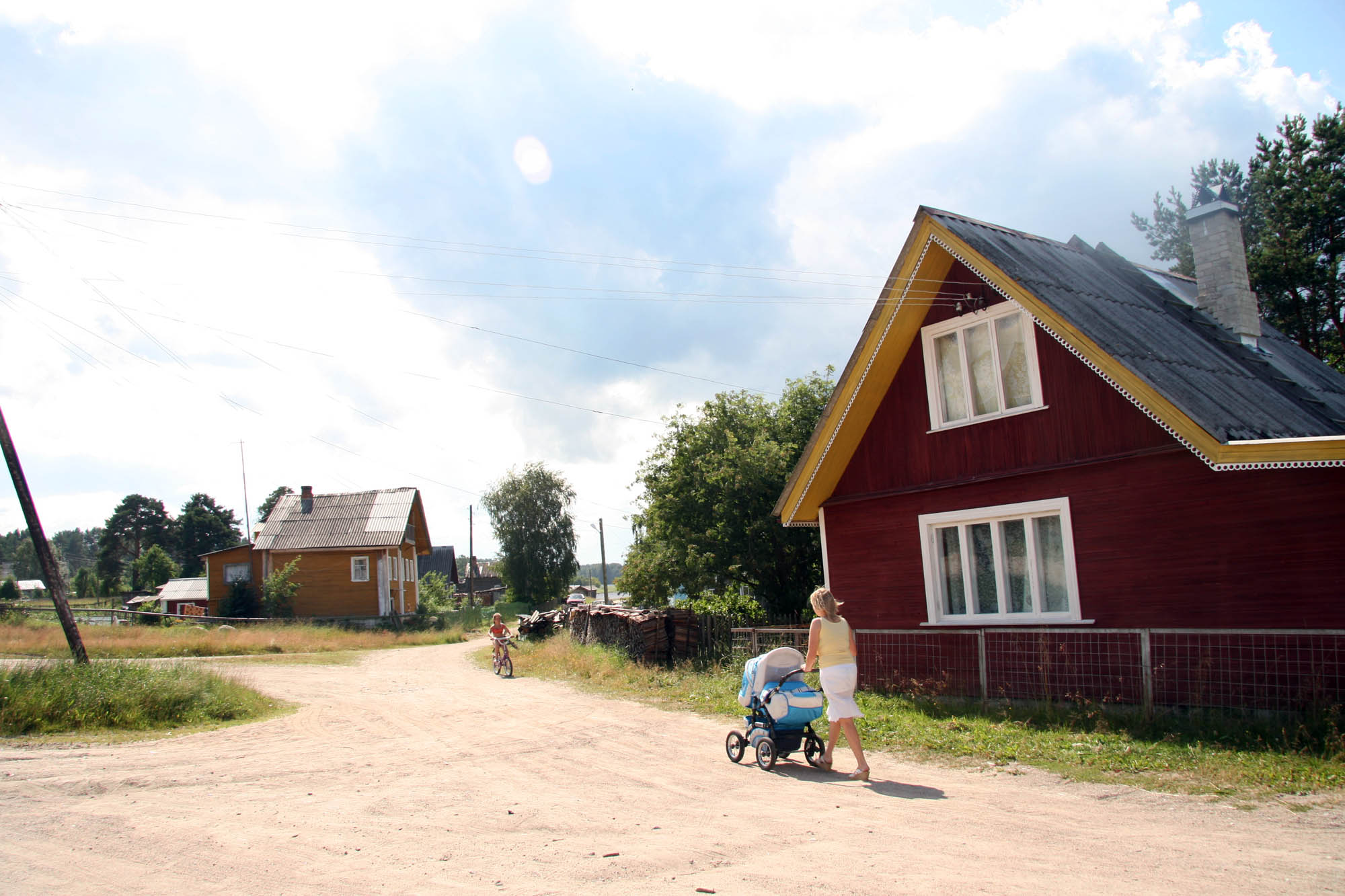 Säämäjärvi village in Karelia